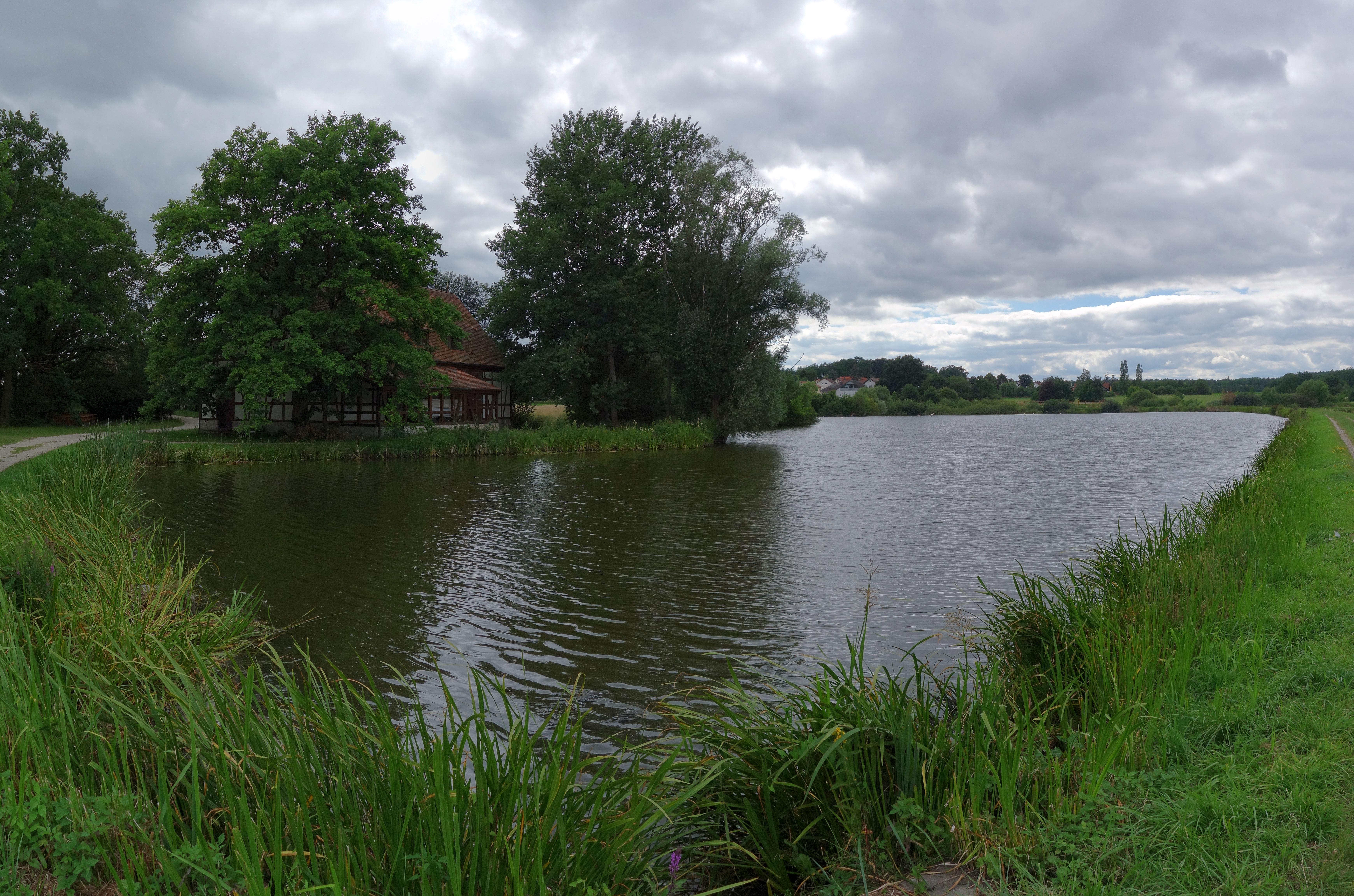 Kosbach is a village of the city Erlangen in Germany. Kosbach is surrounded by many fish ponds, one cluster of which is called "Wellesweiher". This is one of the fish ponds of this cluster.